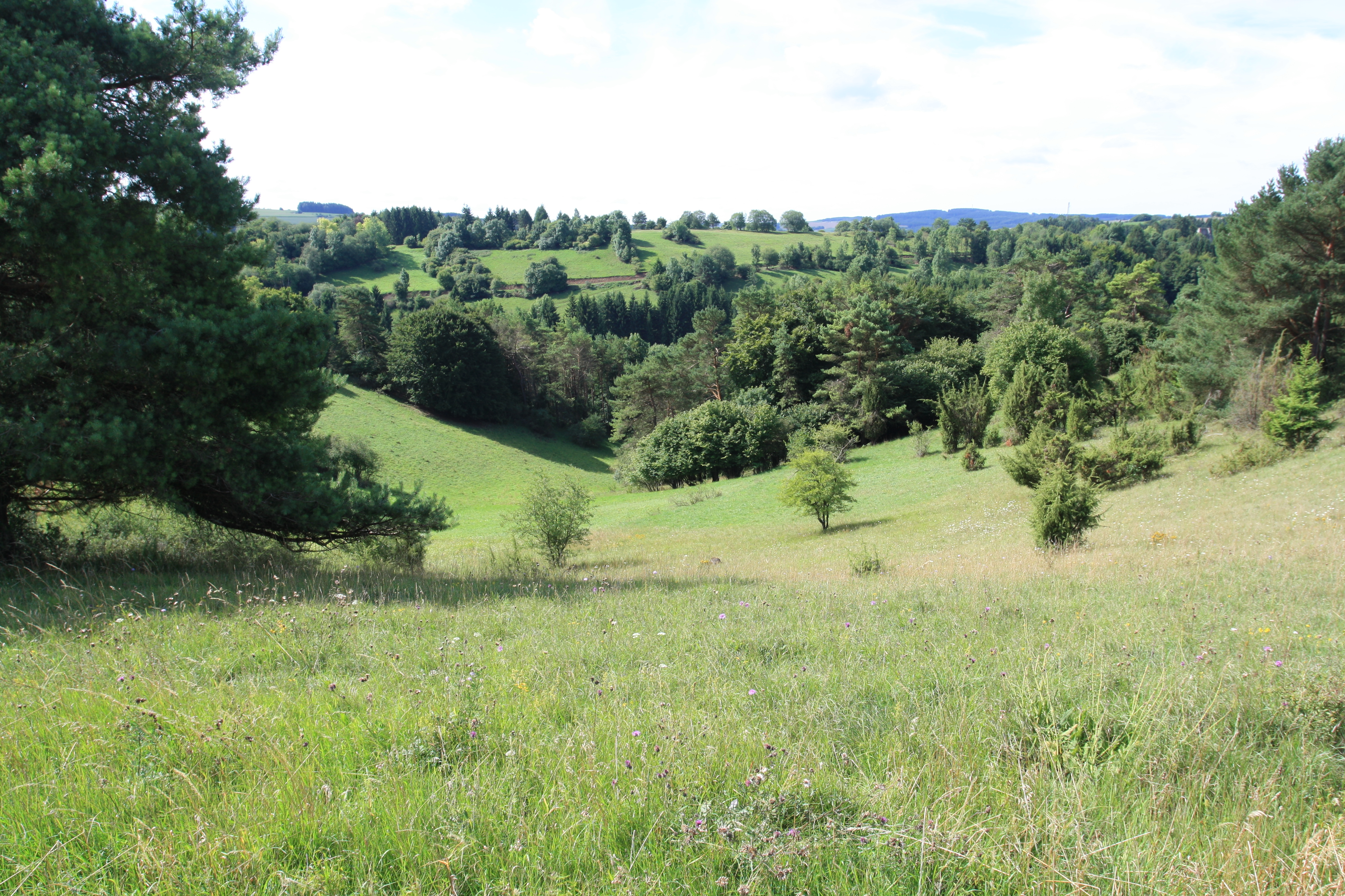 Aubachtal, Schoenecker Schweiz, Rhineland-Palatia, Germany; August 2017